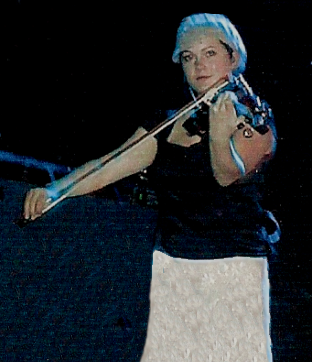 Photograph of Sara Watkins taken at Manchester Students Union in July 2006.